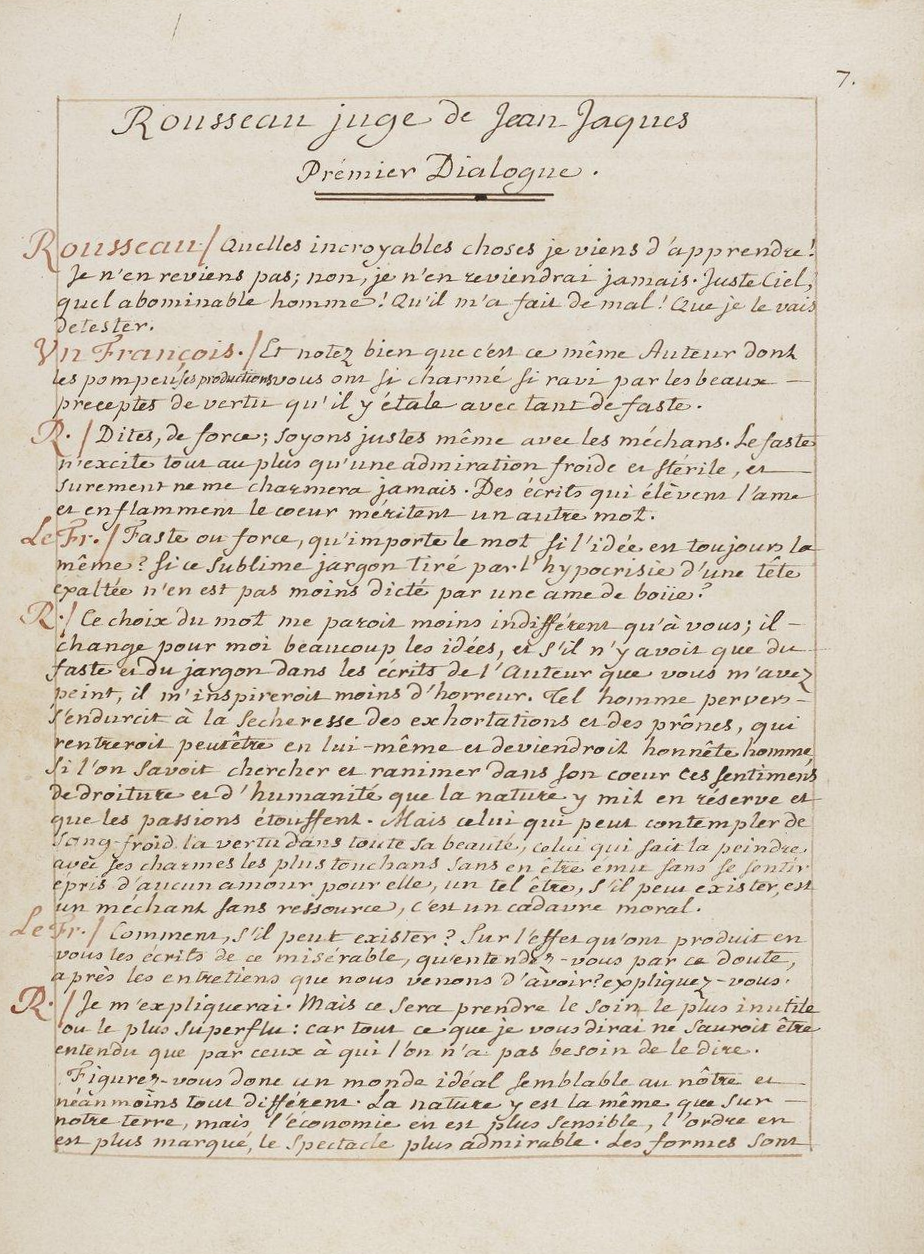 Manuscript version of the first page of Jean-Jacques Rousseau's Rousseau juge de Jean-Jacques, 1772.